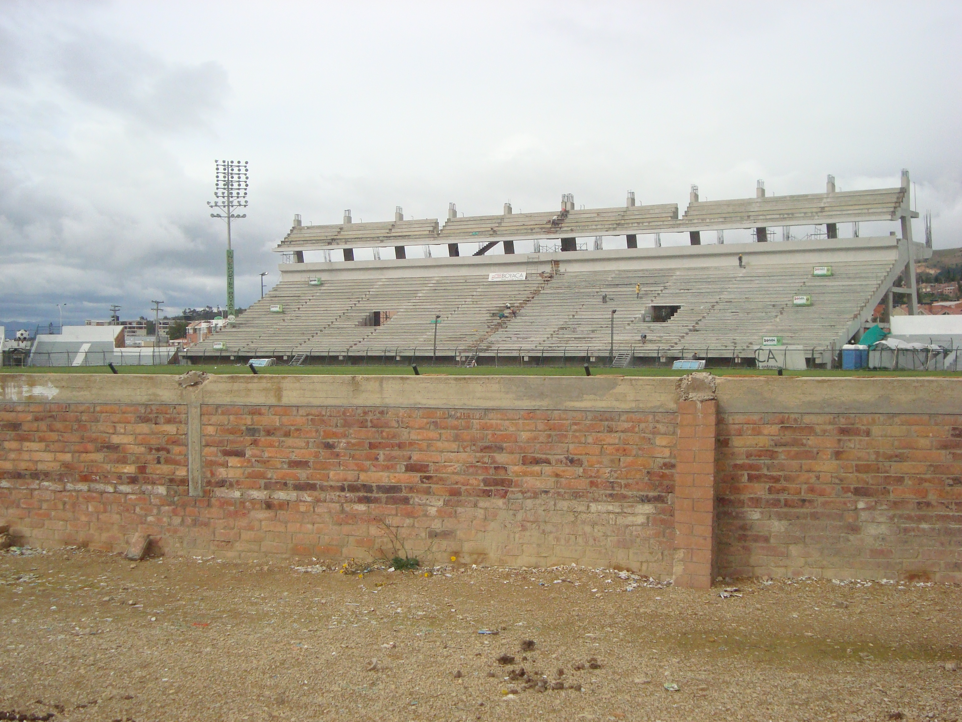 stadium